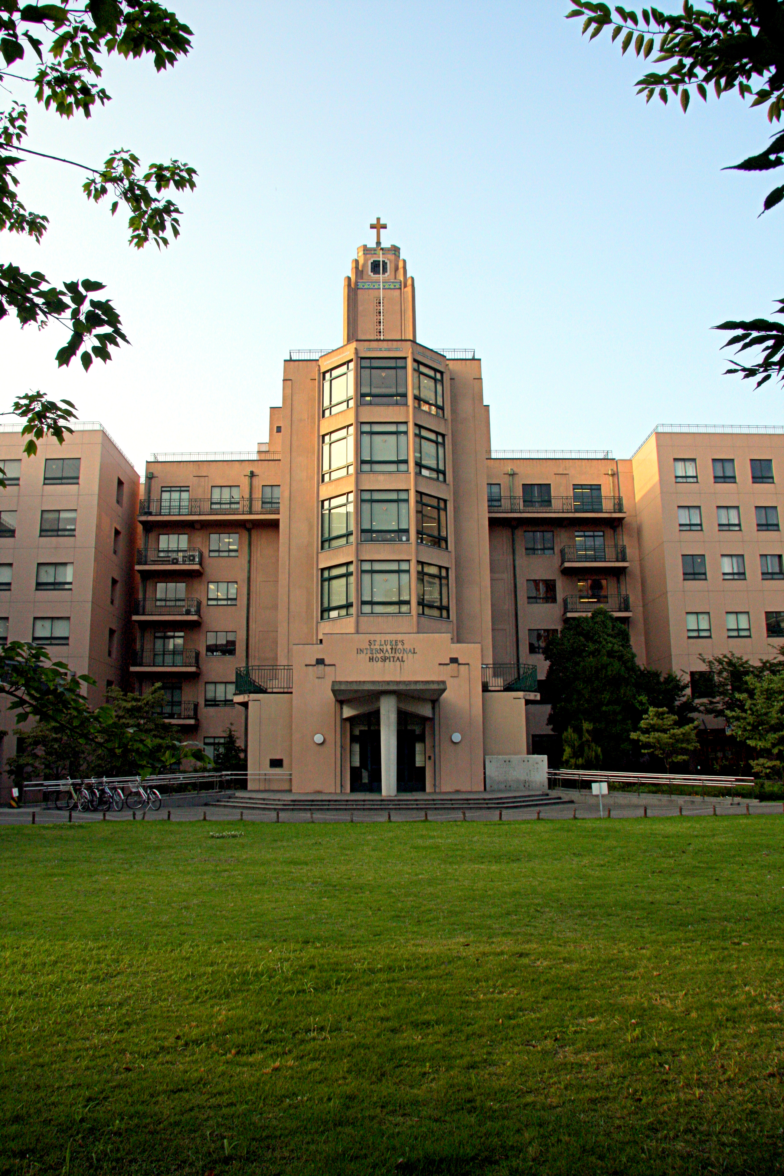 View from the front of St. Luke's International Hospital in Tsukiji, Tokyo.